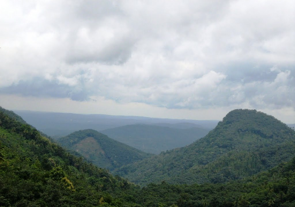 Hills seen at a distance along to way to Vagamon